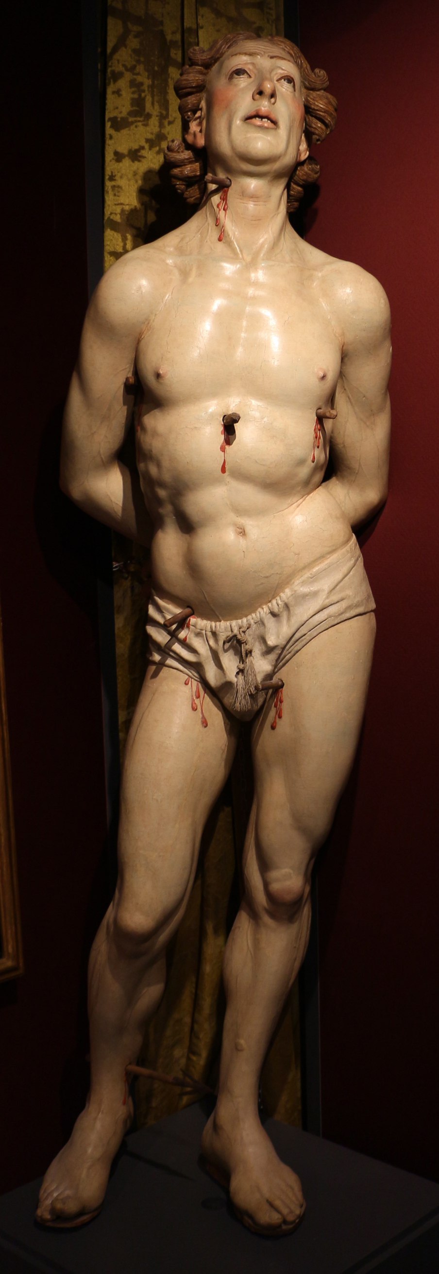 Il Tesoro d'Italia (exhibition at Expo 2015)